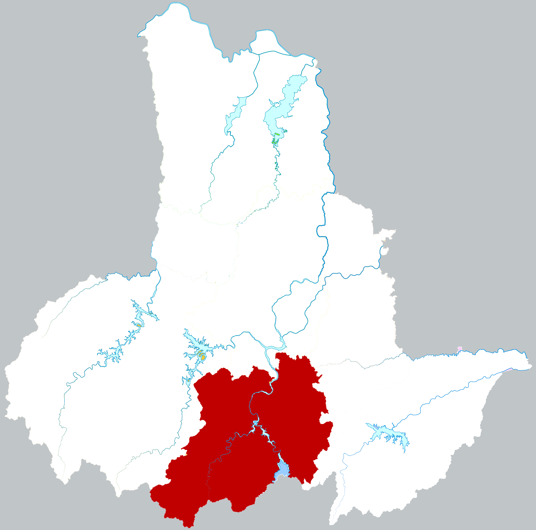 Location of Huoshan county in Lu'an city, China